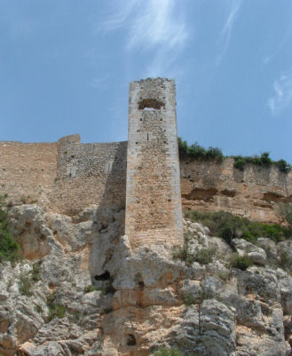 Castell de Santueri - Mallorca - Photo taken by me Jarvin May 2006